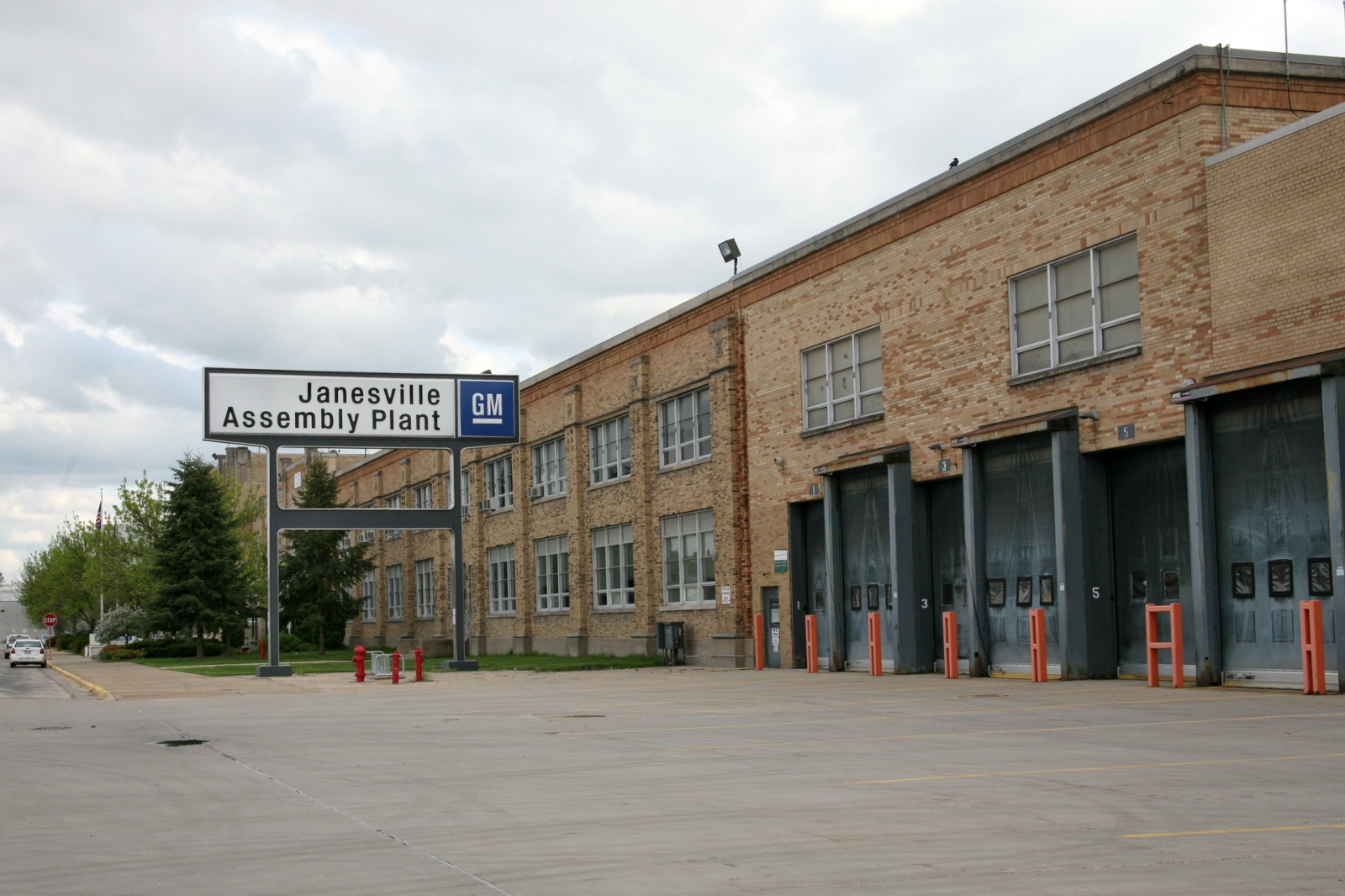 Exterior of Janesville GM Assembly Plant